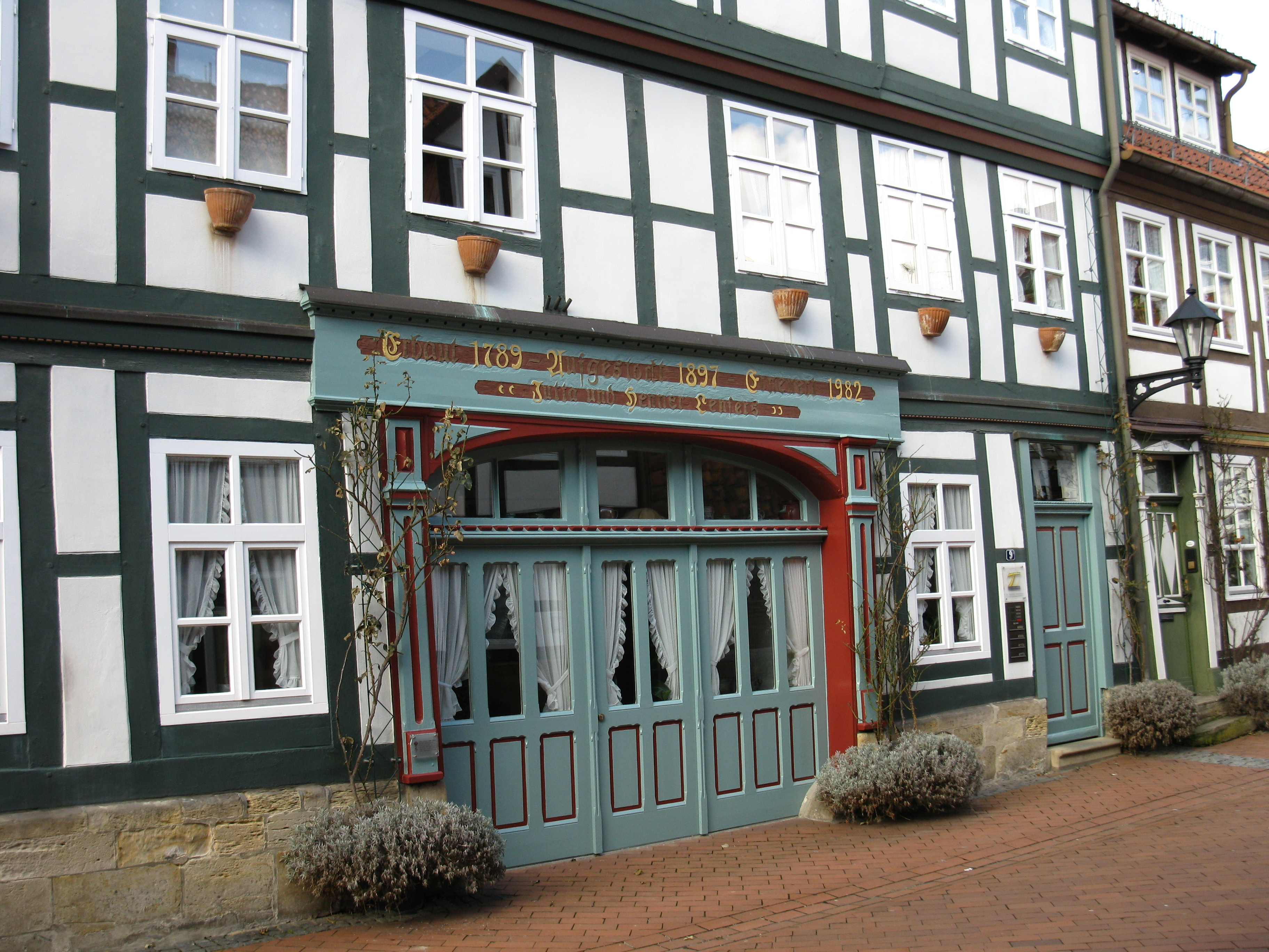 Half-timbered house (1789) in Knollenstrasse, Hildesheim.